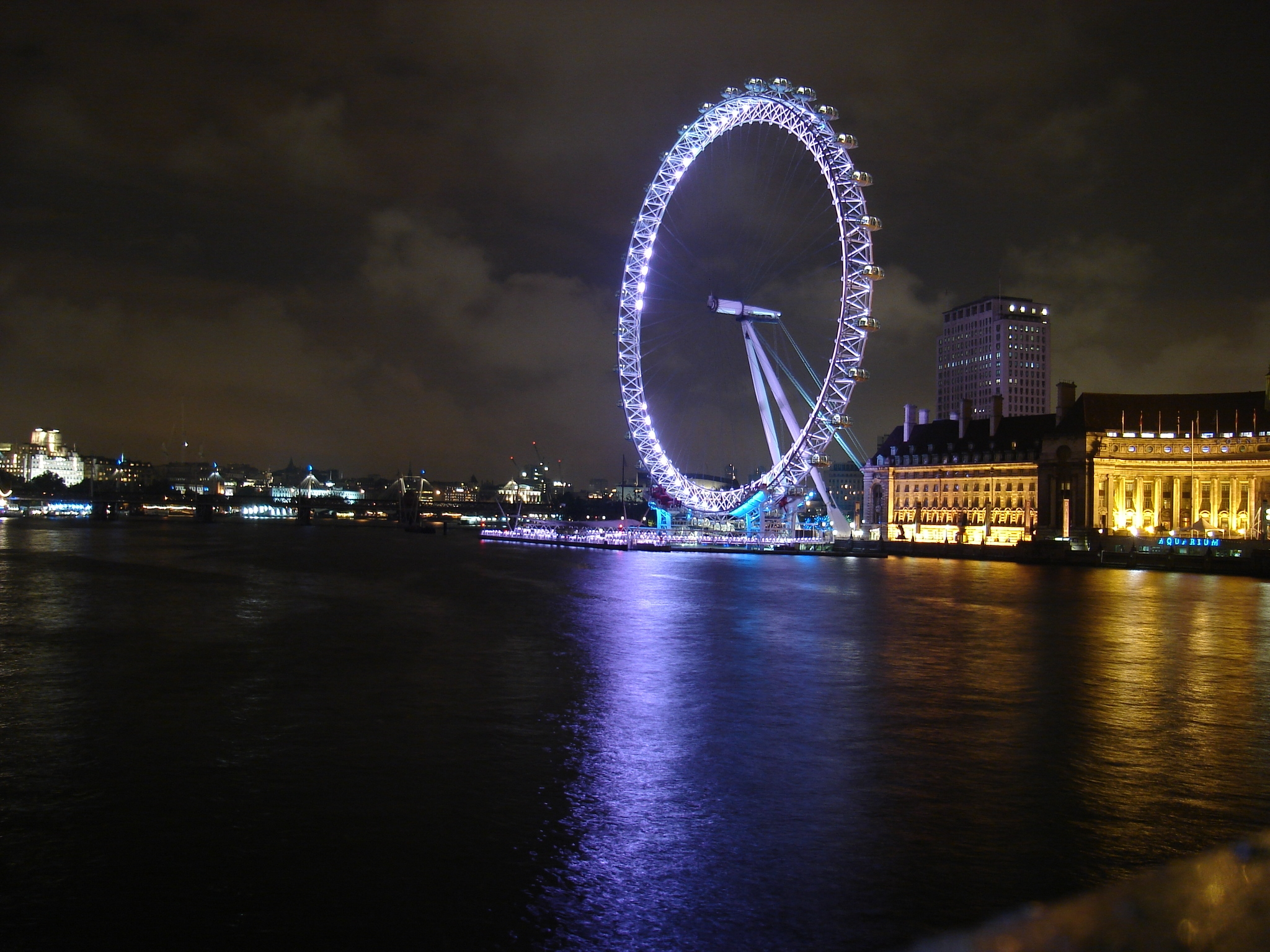 London eye from the Westminster bridge